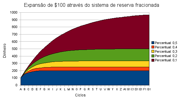 Fractional reserve system, money multiplier example. Created with Calc based on the work of Analoguni